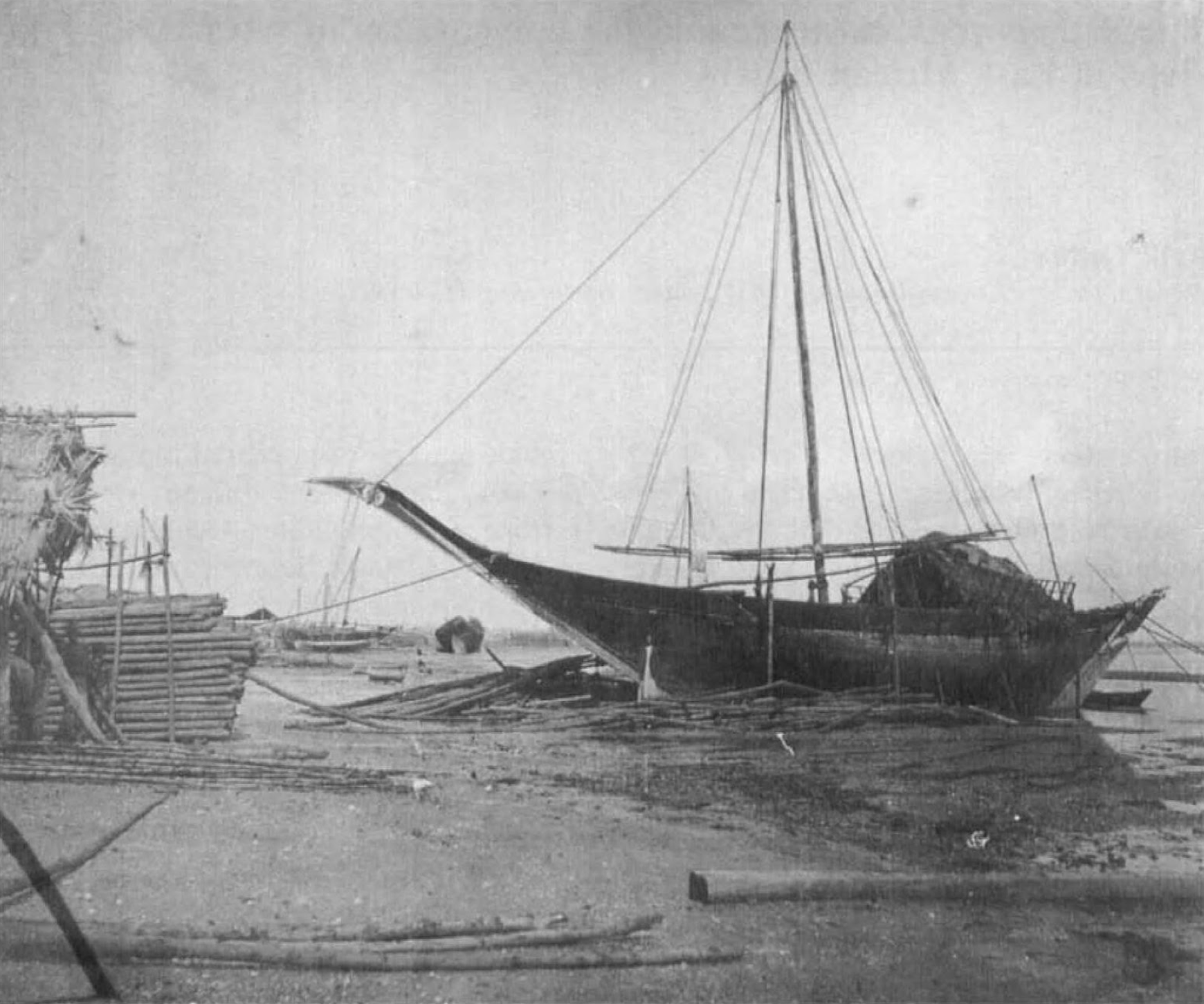 Coir-sewn mtepe craft on the beach at Zanzibar, circa 1890. Note the mangrove poles stacked on the beach and next to the ship.